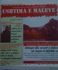 1"Ushtima.jpg